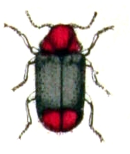 Ochina latrellii, from Calwer's Käferbuch, Table 29, Picture 5. Taxonomy was updated to 2008, using mostly the sites Fauna Europaea and BioLib. Please contact Sarefo if the determination is wrong!